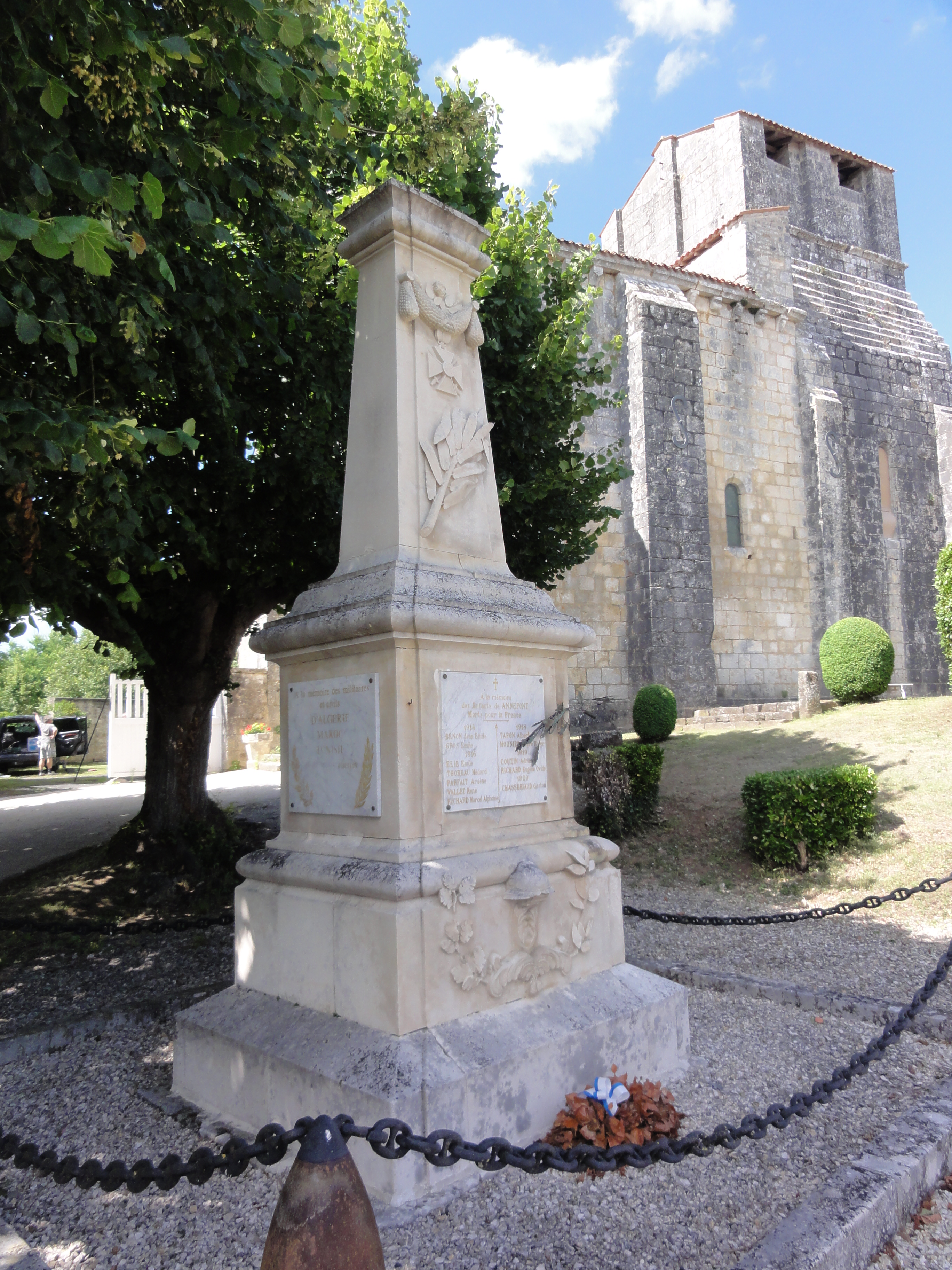 Annepont (Charente-Maritime) monument aux morts devant le MH Église Saint-André .